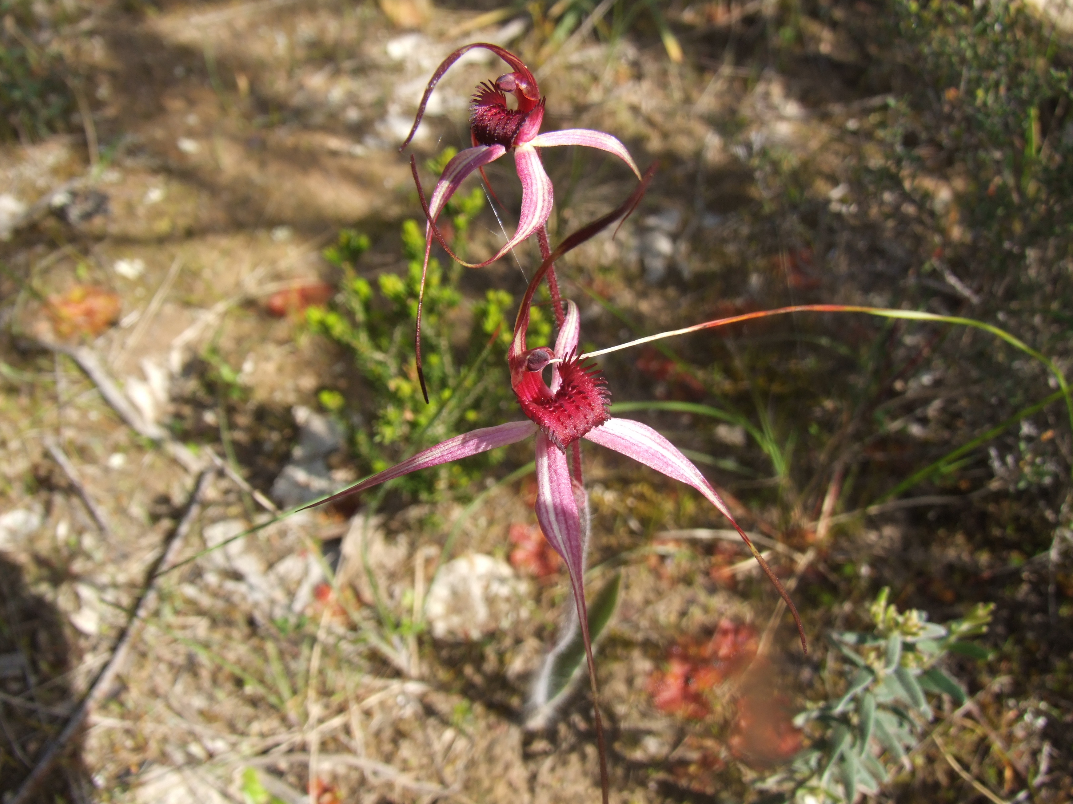 Australian orchid, the Red Cross Spider Orchid (Caladenia cruciformis)